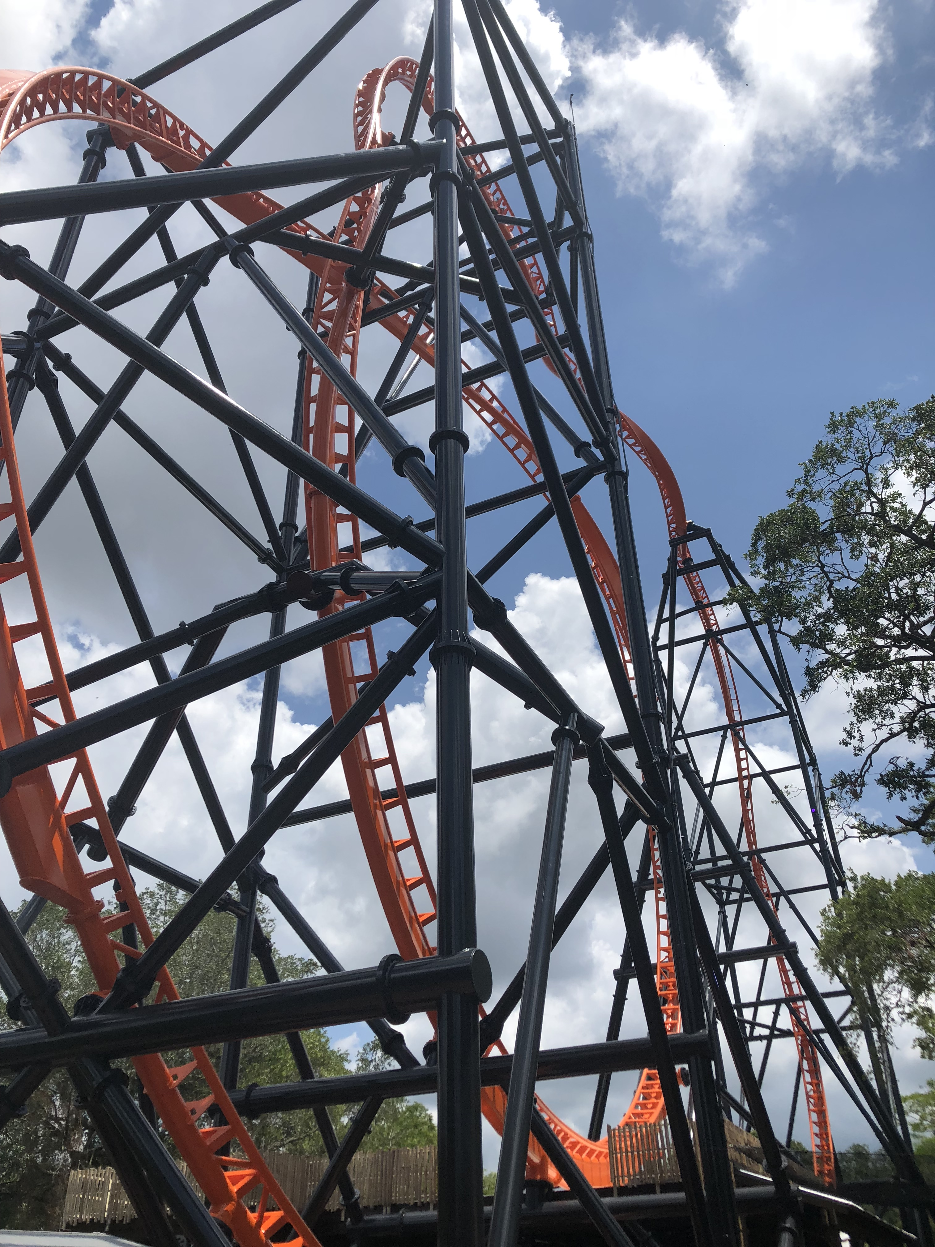 View of the underside of Tigris, a roller coaster located at Busch Gardens Tampa